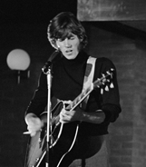 The Bee Gees in Dutch television show Twien (1968)